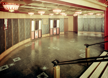 Entrance lobbyand ticket hall - Entrance was made via a large wide straicase descending from Newgate Street, now occupied by The Gate. The Mayfair Ballroom and Concert Hall was one of the most popular venue's in Newcastle-Upon-Tyne, hosting a rock club, which became the largest and longest-running of its kind in Europe. Situated on the corner of Newgate Street and Low Friar Street, it closed in 1999 to make way for a leisure complex, now known as The Gate. 22 November 1961 photographed by Turner's. Turner’s was established in Newcastle upon Tyne in the early 1900s. It was originally a chemists shop but in 1938 become a photographic dealer. Turners went on to become a prominent photographic and video production company in the North East of England. They had 3 shops in Newcastle city centre, in Pink Lane, Blackett Street and Eldon Square. Turner’s photographic business closed in the 1990s. Ref: TWAS:DT.Tur/4/AG1859/b (Copyright) We're happy for you to share this digital image within the spirit of The Commons. Please cite 'Tyne & Wear Archives & Museums' when reusing. Certain restrictions on high quality reproductions and commercial use of the original physical version apply though; if you're unsure please . To purchase a hi-res copy please quoting the title and reference number.